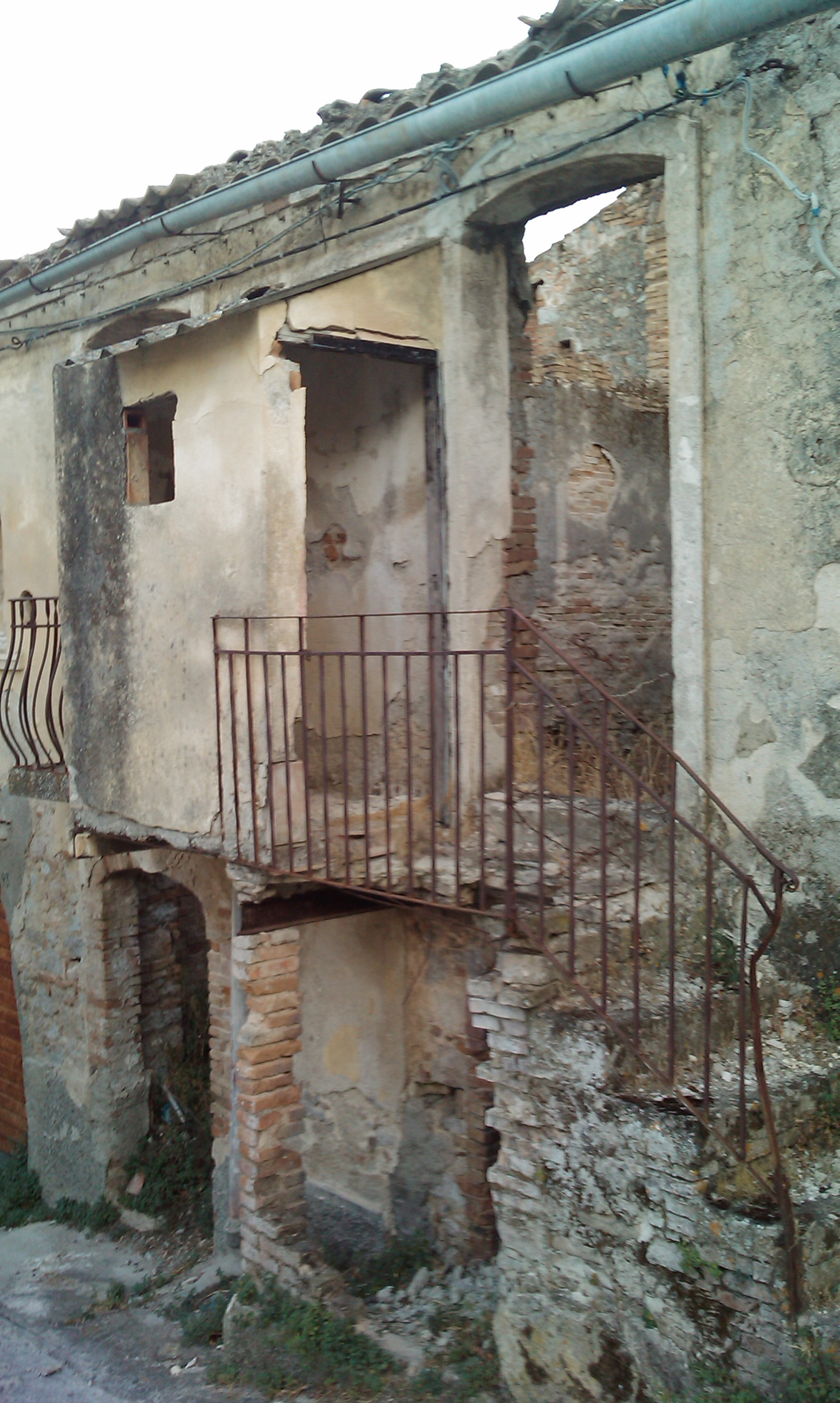 Old burned house of Camini (Italy).